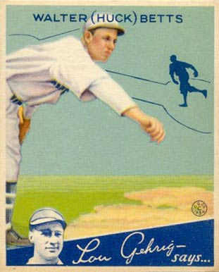 1934 Goudey baseball card of Walter "Huck" Betts of the Boston Braves #36. PD-not-renewed.